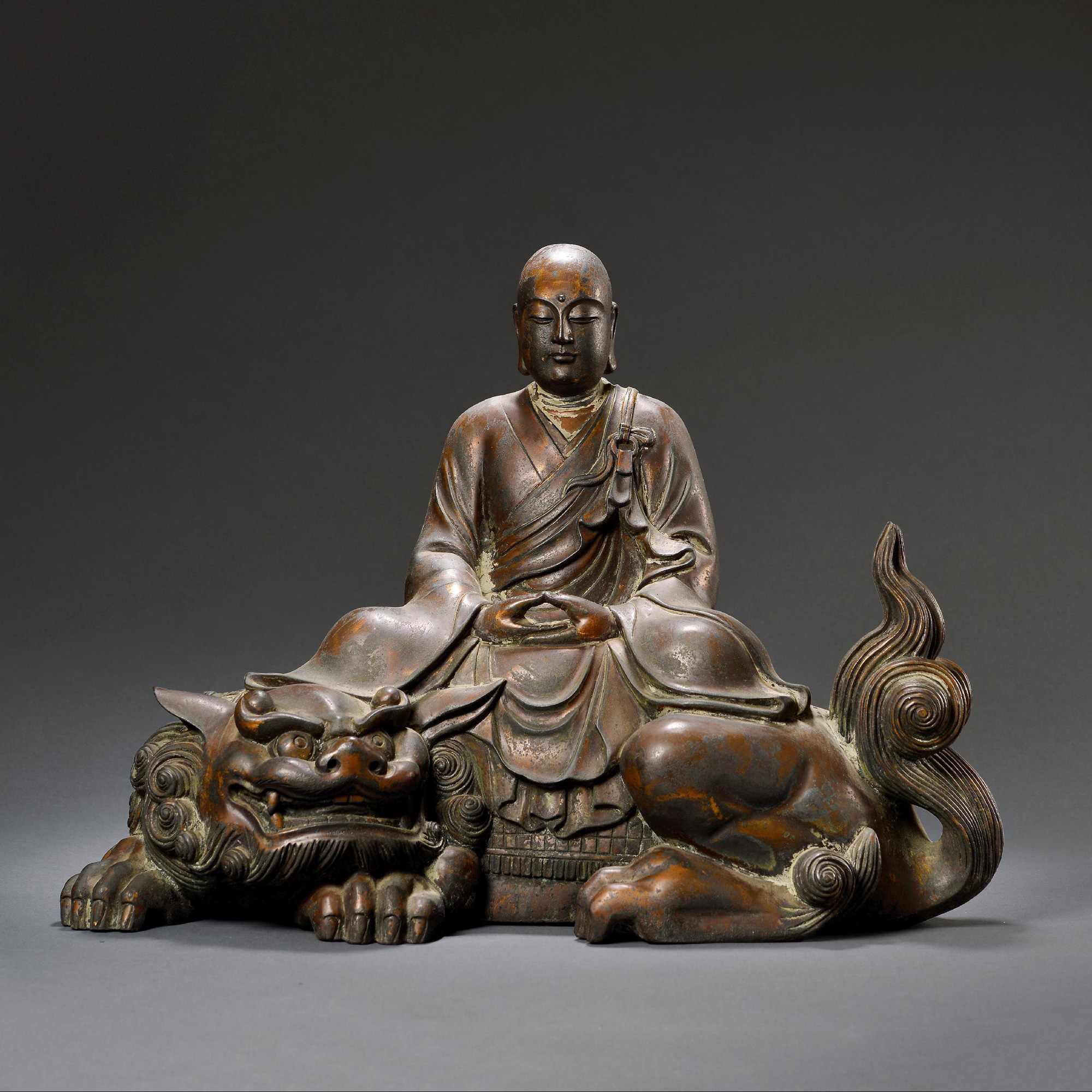 Chinese bronze sculpture of Kṣitigarbha from Qing dynasty